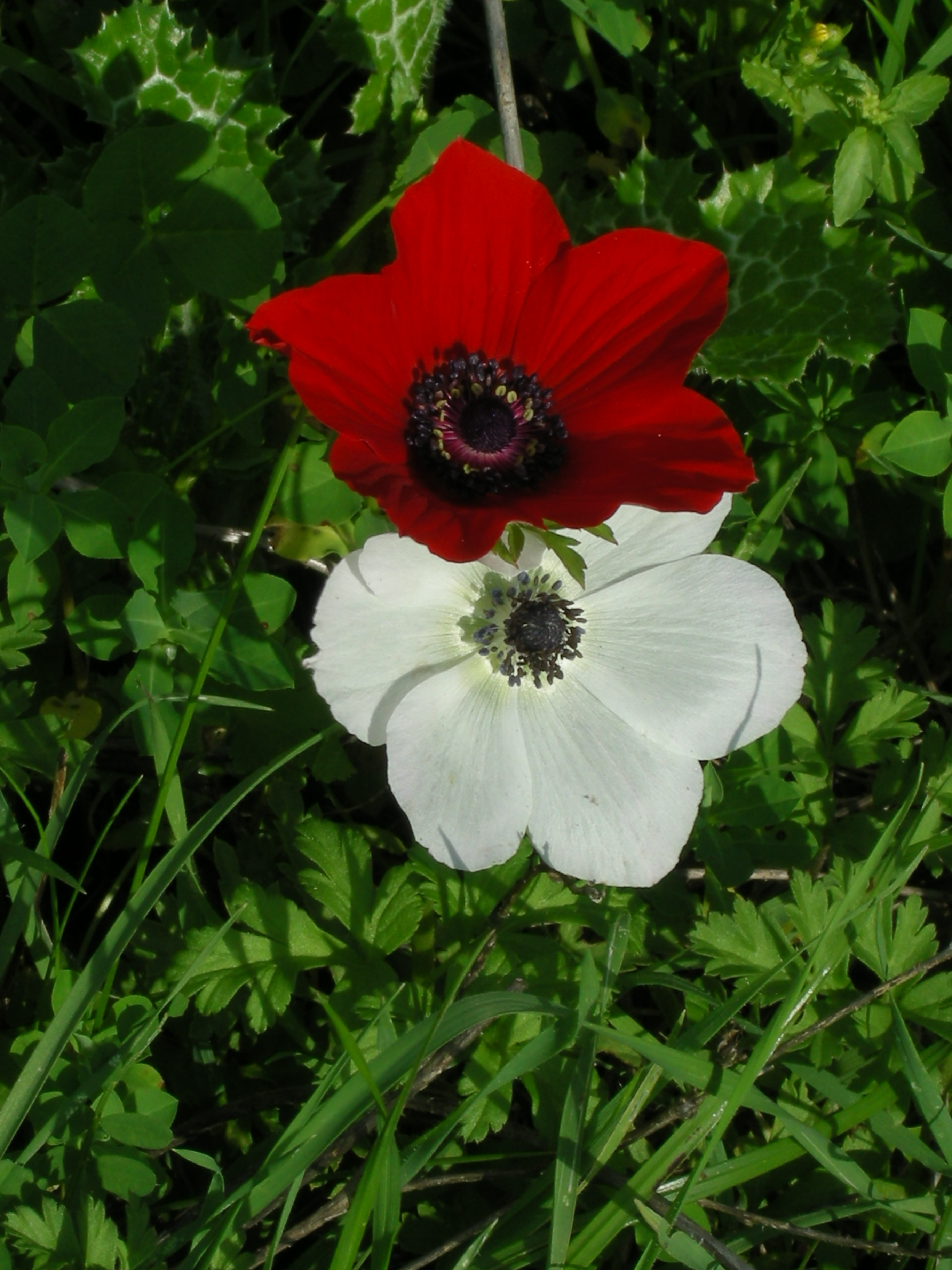 Church of All Nations (Jerusalem) Photos taken near Bethlehem of Galilee